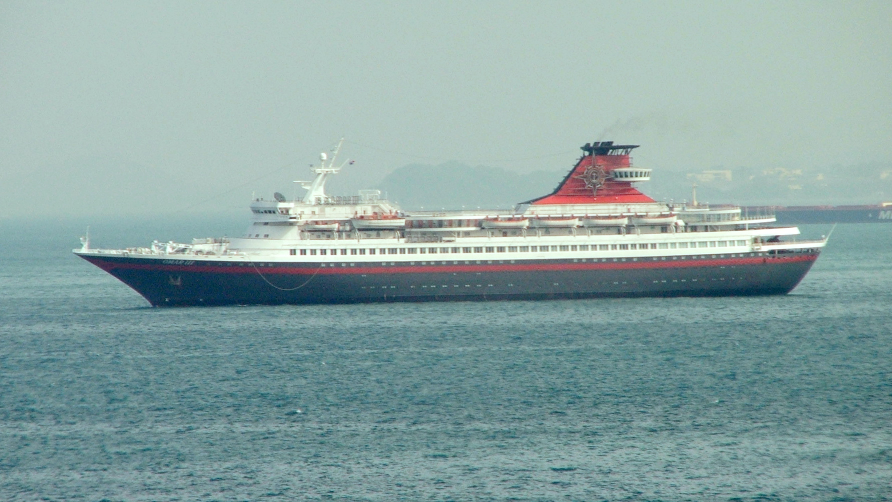 The casino cruise ship Omar III in Singapore